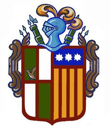 Cuiper's escutcheon